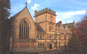 Front of Harris Manchester College on Mansfield Road, Oxford.